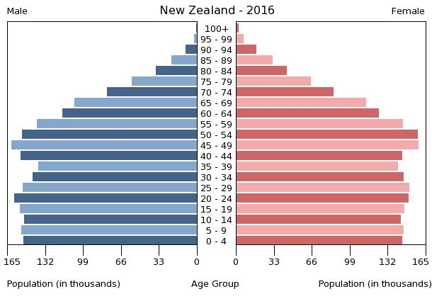 The population pyramid of New Zealand illustrates the age and sex structure of population and may provide insights about political and social stability, as well as economic development. The population is distributed along the horizontal axis, with males shown on the left and females on the right. The male and female populations are broken down into 5-year age groups represented as horizontal bars along the vertical axis, with the youngest age groups at the bottom and the oldest at the top. The shape of the population pyramid gradually evolves over time based on fertility, mortality, and international migration trends.